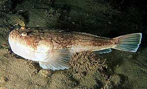 Picture of Uranoscopus scaber